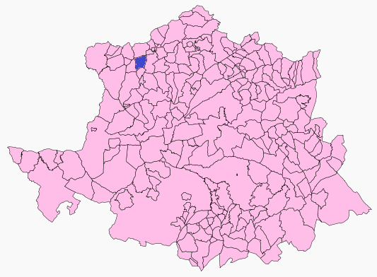 Villasbuenas de Gata